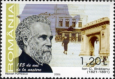 Stamps of Romania, 2006